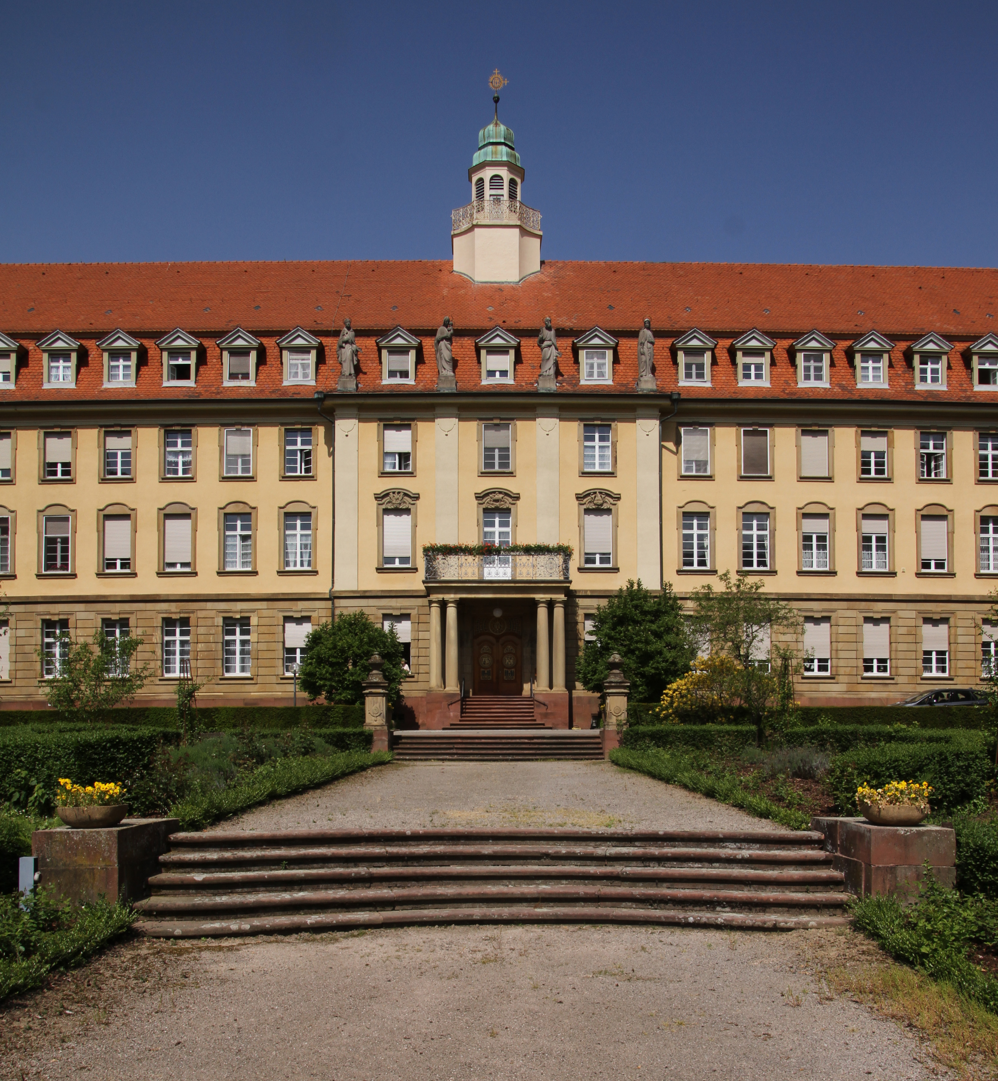 Nunnery Erlenbad in Sasbach (Ortenau)